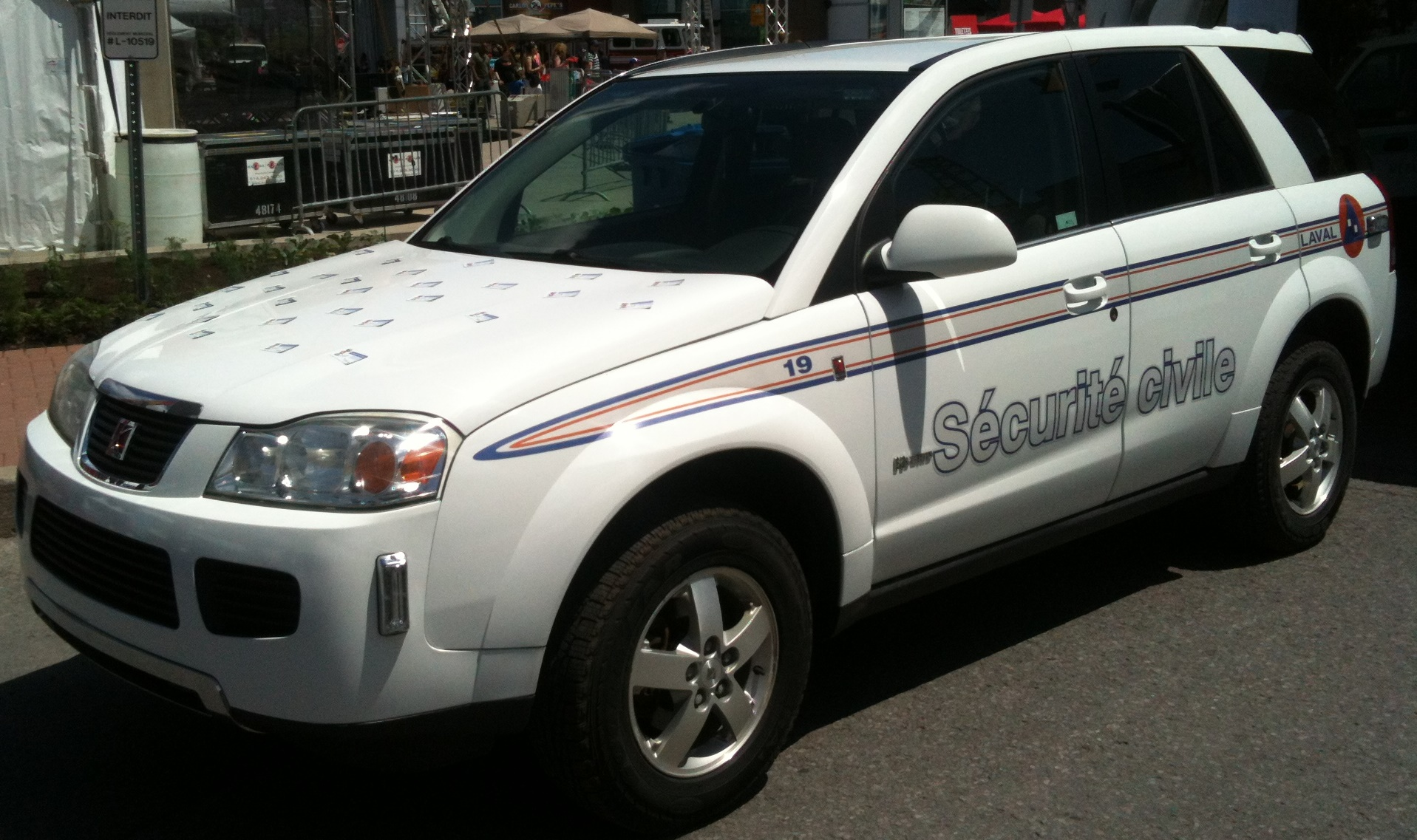 2006-2007 Saturn Vue Green Line Hybrid photographed in Laval, Quebec, Canada at the 2014 Laval Fire Department Days show.